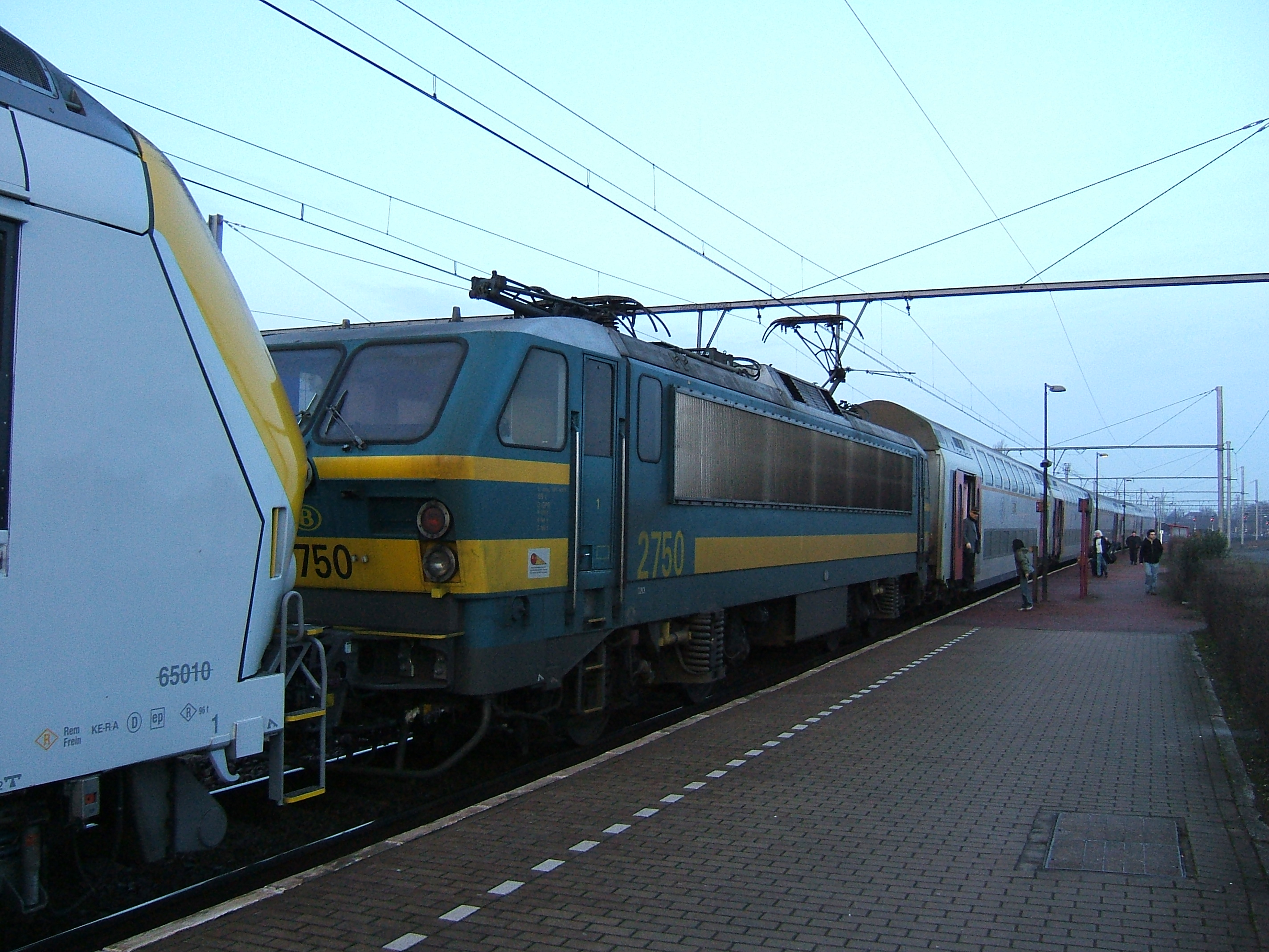 Class 27 mid-train in Landen